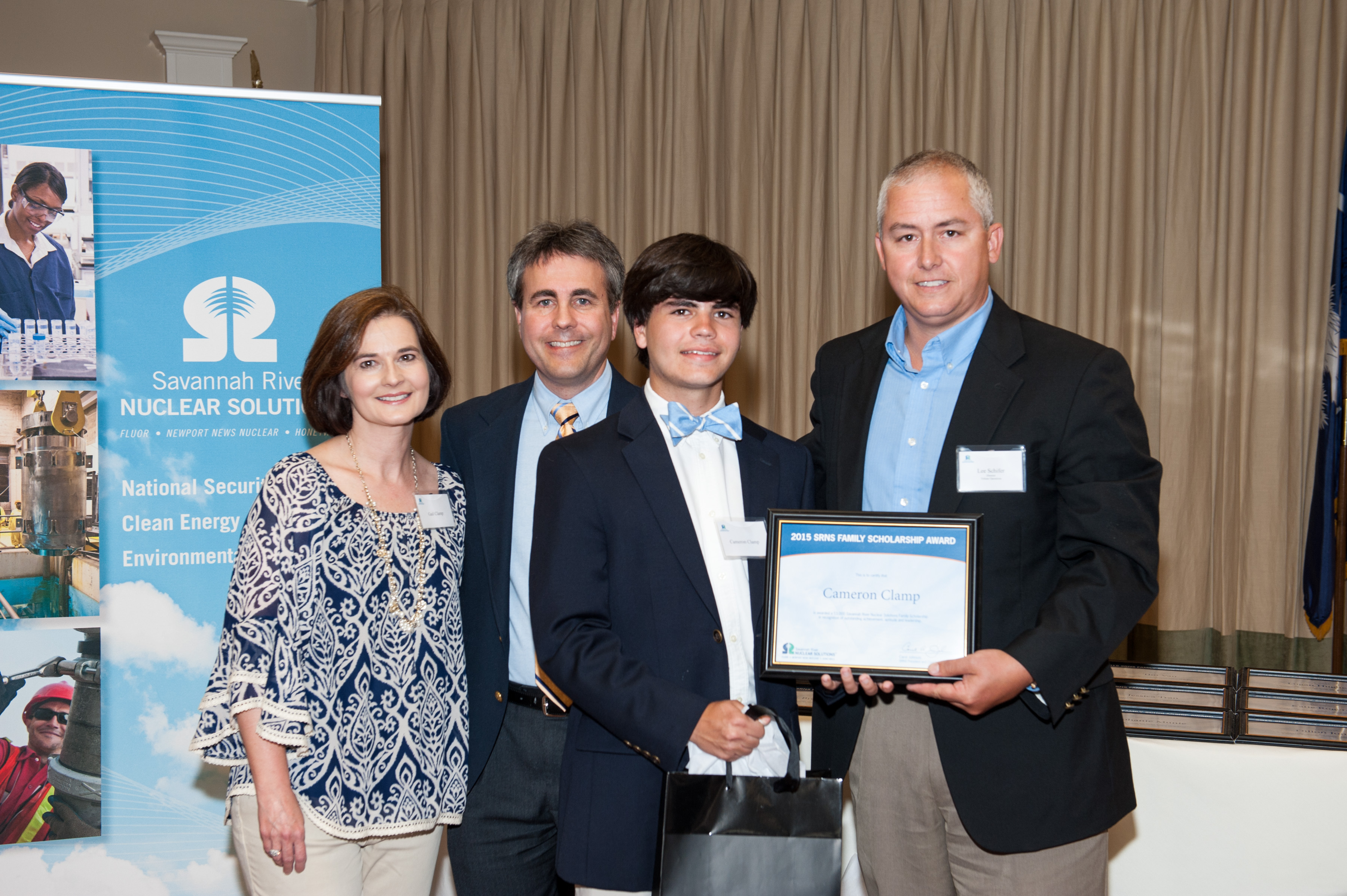 2015 SRNS Family Scholarships